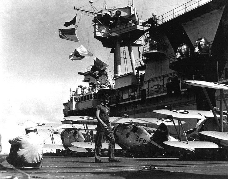 U.S. Navy Grumman F2F-1 fighters of fighting squadron VF-5 on deck of the aircraft carrier USS Yorktown (CV-5), in February 1939.